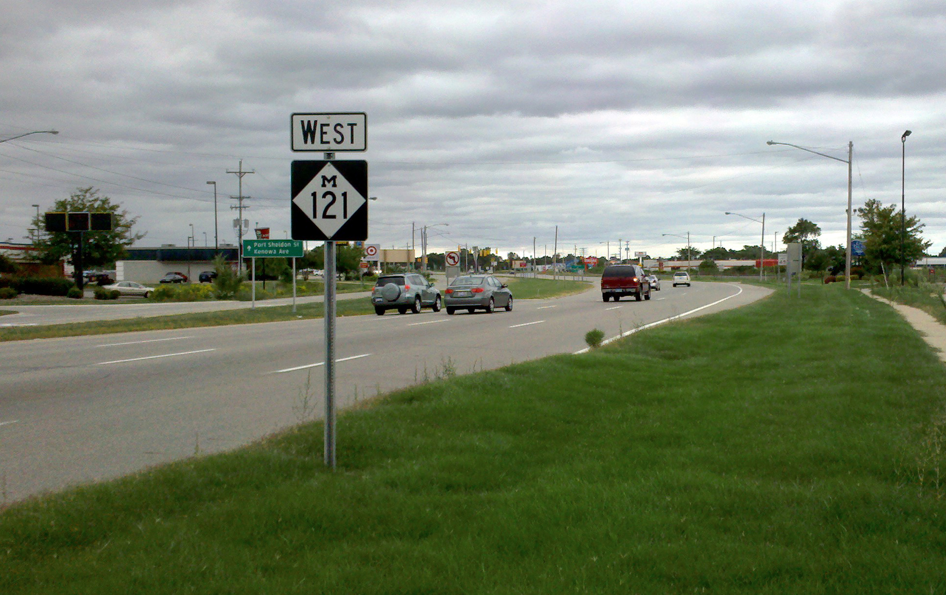 M-121 reassurance marker west of Main Street intersection in Jenison, Michigan.